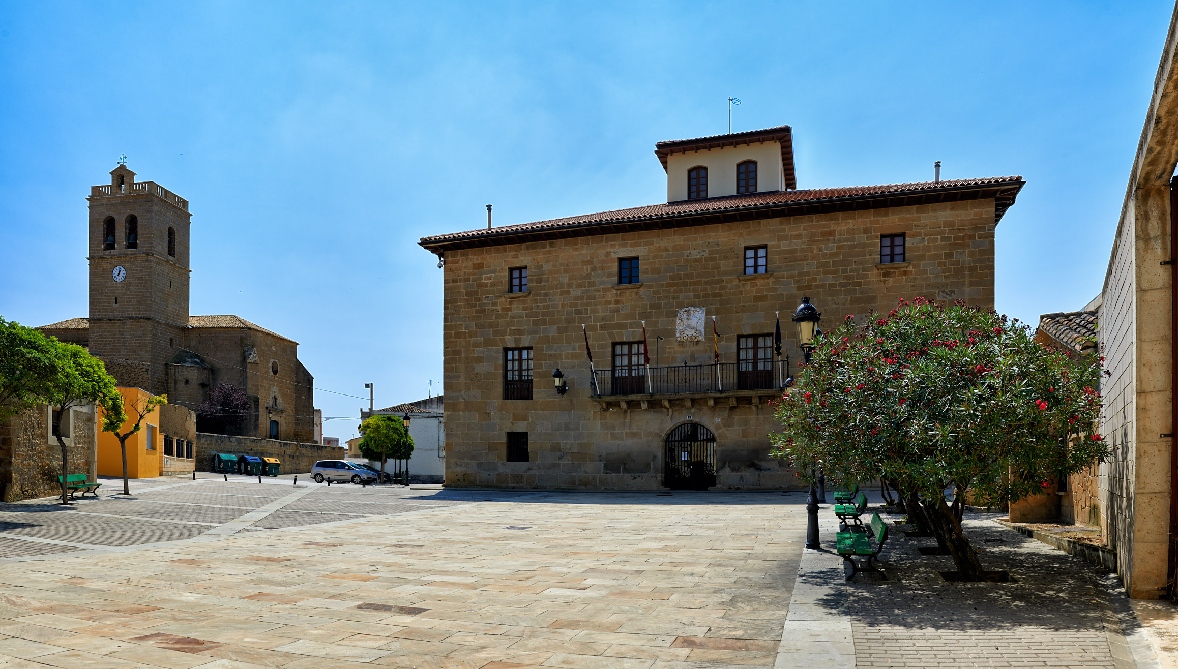 Casa Grande (town hall) & St Mary church of Murillo el Fruto (Navarra, Spain)